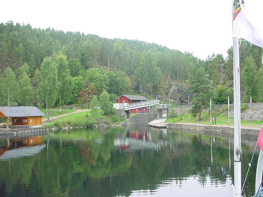 Løveid locks in the Telemark Canal, Norway, approaching the lower lock gate